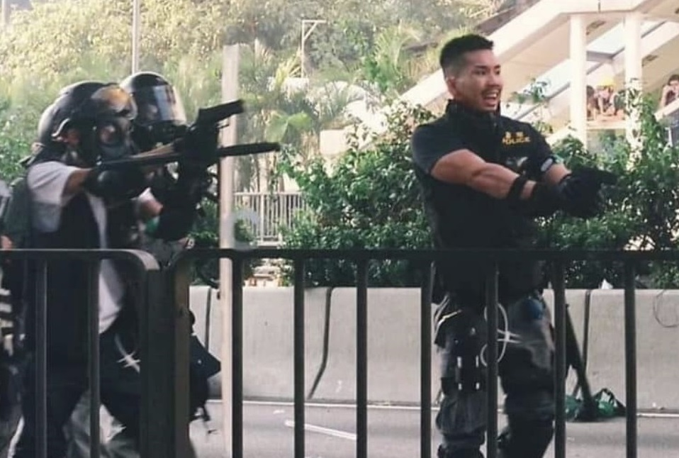 A Hong Kong Policeman shows a happy face while pointing a gun at protesters in Wong Tai Sin, 1st October 2019.